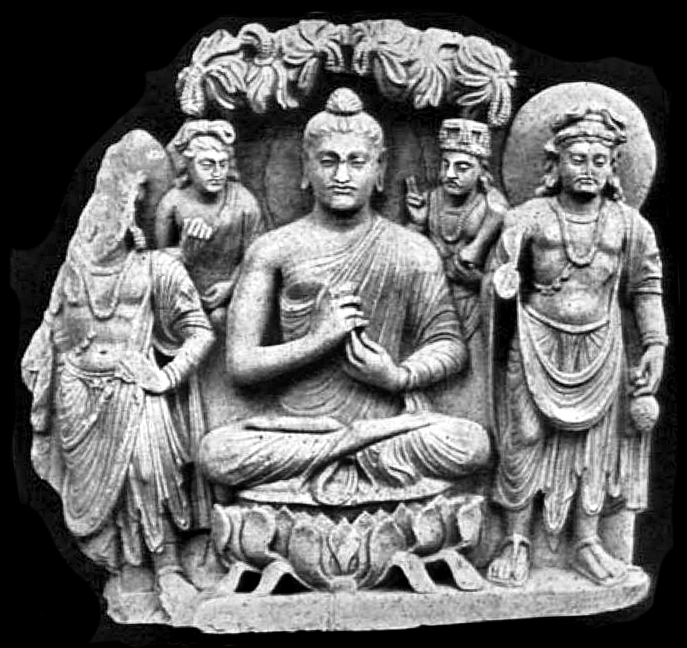 Buddhist Triad Peshawar Museum. Quite similar to the Brussels Buddhist triad inscribed "Year 5", visible in "Problems of Chronology in Gandharan Art" (2017) p.43 or at the Shizuoka Museum exhibit in 2007 [1]